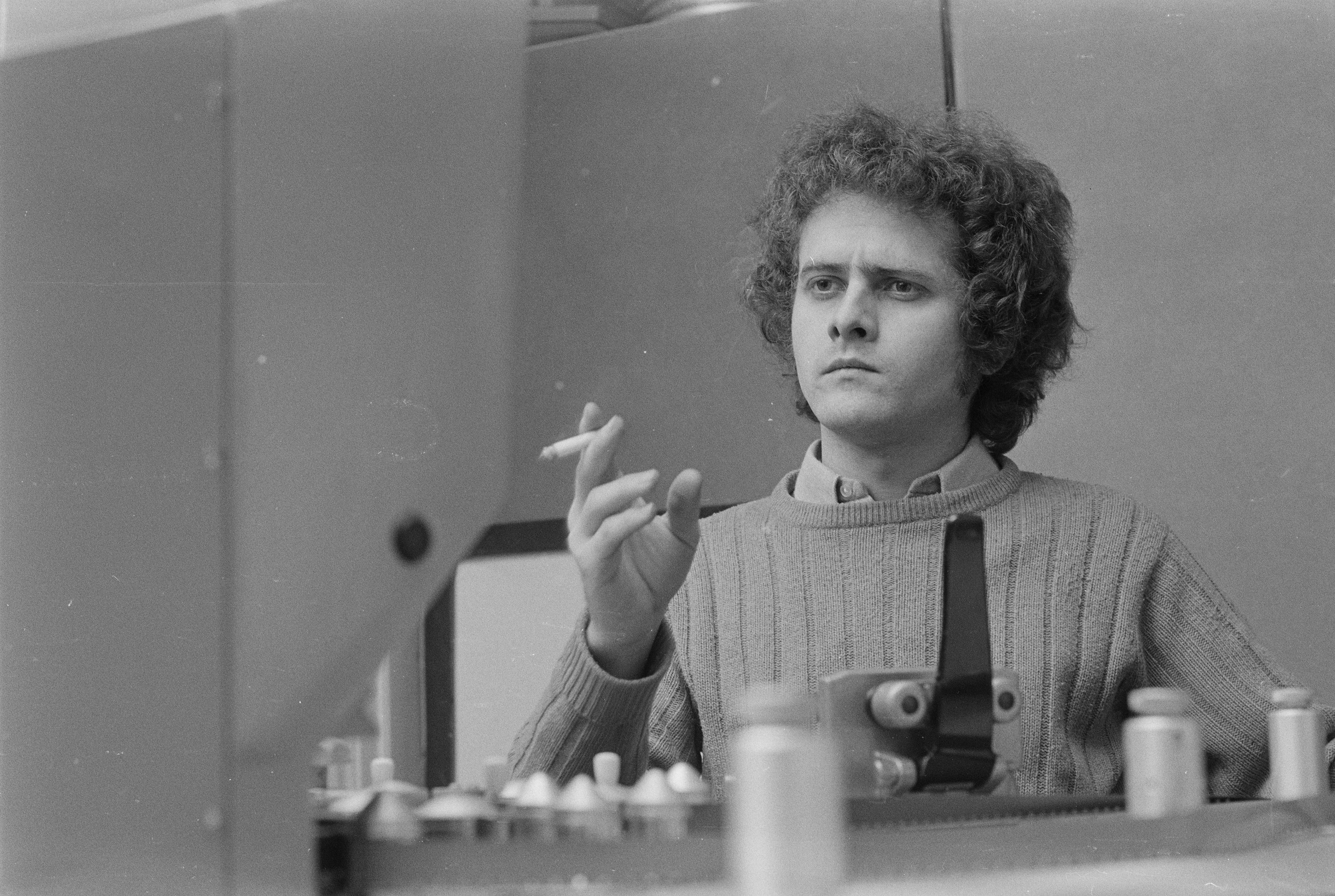 Kurt Gloor, Film director, 1972